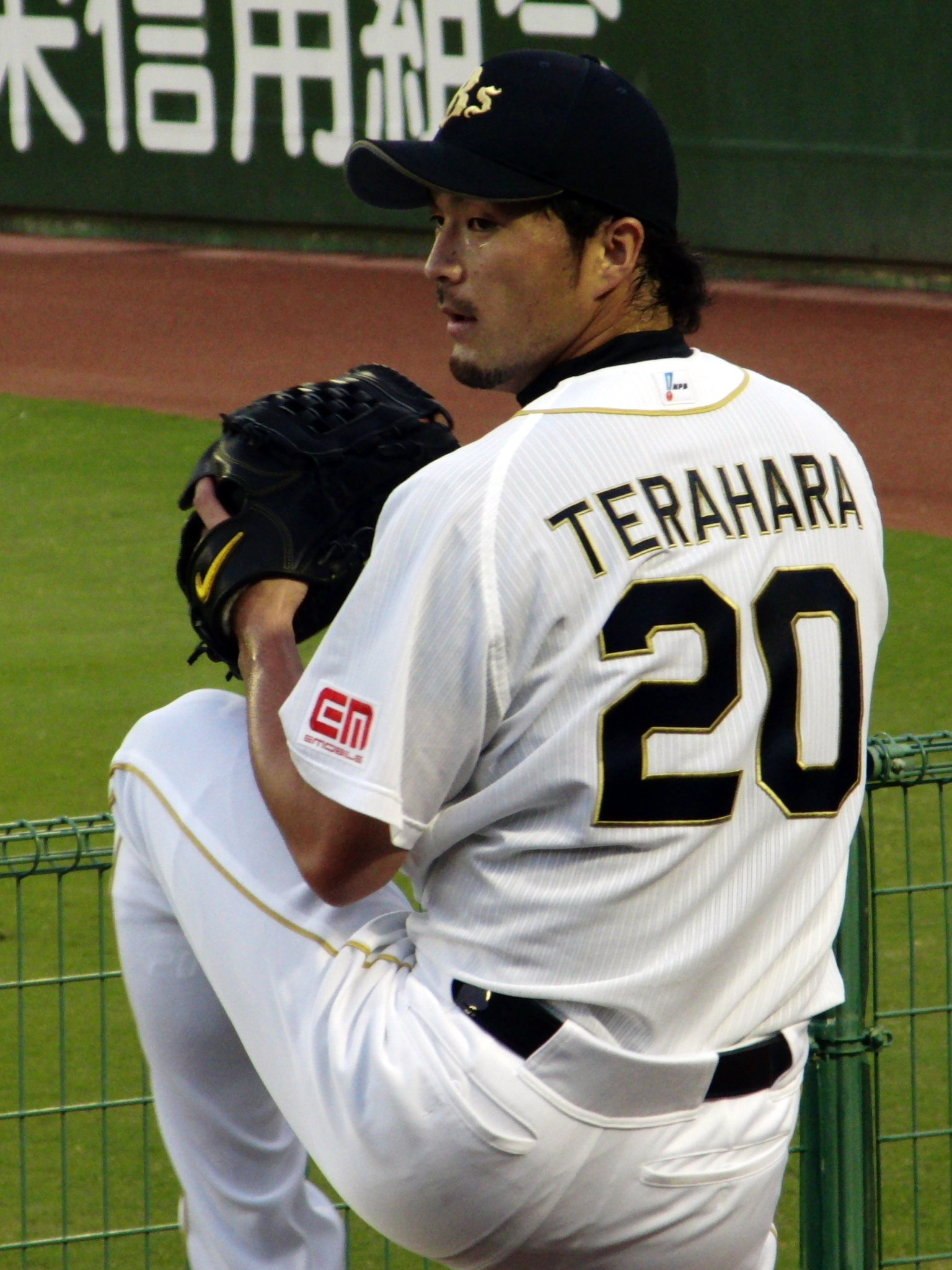 Hayato Terahara, pitcher of the Orix Buffaloes, at Kobe Sports Park Baseball Stadium.